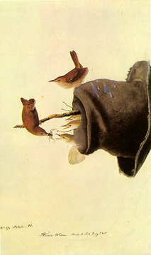 Illustration of Troglodytes aedon by John James Audubon